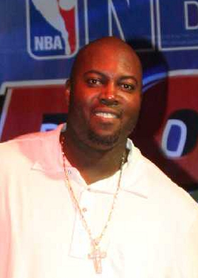 Glen Rice at the NBA Asia Challenge 2010